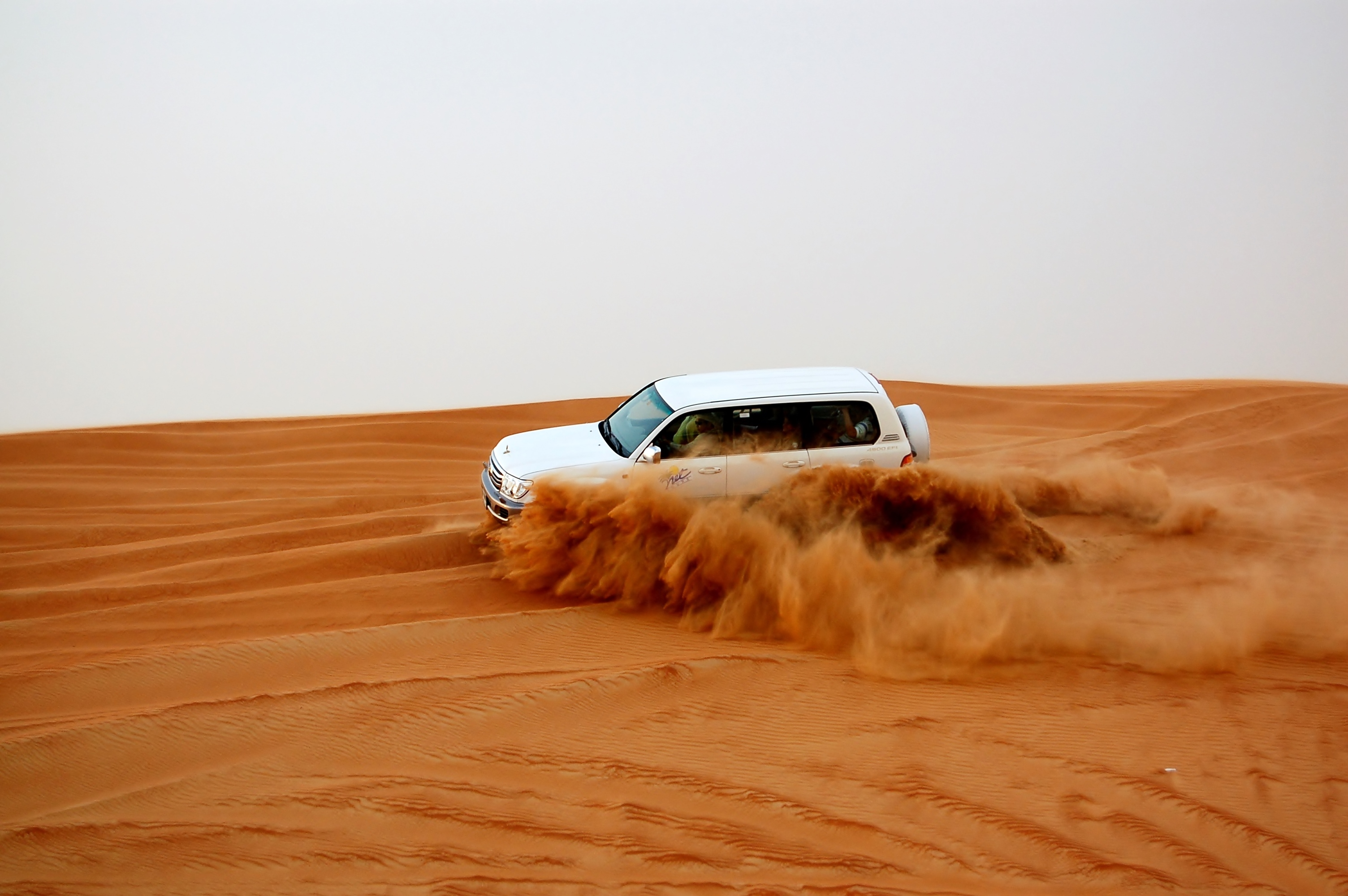 View of some organised dune bashing in one of the deserts of Dubai, UAE, using a fleet of Toyota Land Cruiser J100 series SUVs.